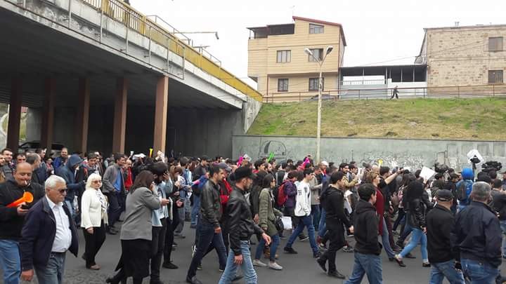 Protest demonstration